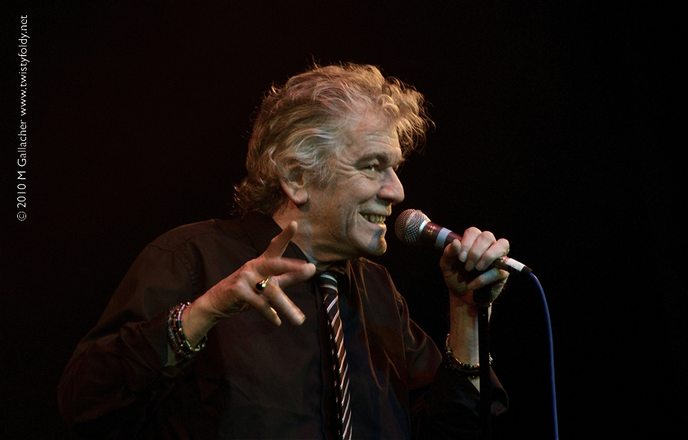 Nazareth Rothes Halls Glenrothes 21-02-2010